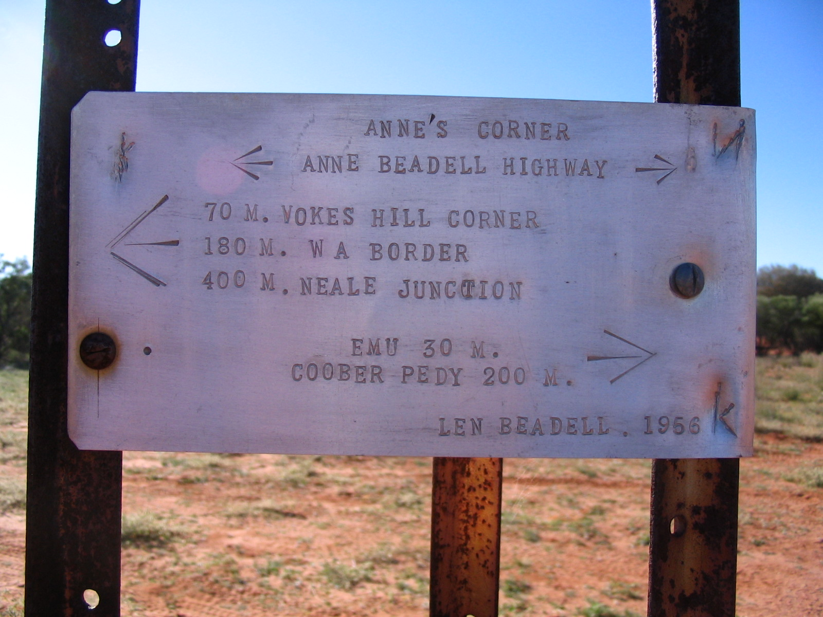 Signpost at Anne's Corner on the Anne Beadell Highway, South Australia. This is the original sign stamped into an aluminium plate by Len Beadell in 1956.